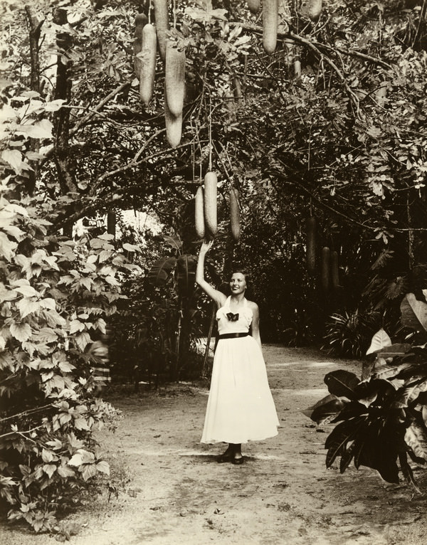 Persistent URL: Local call number: KOR2295 Title: Woman with African sausage tree at the McKee Jungle Gardens in Vero Beach Date: 19-- Physical descrip: 1 photoprint - b&w - 10 x 8 in. Series Title: Koreshan Unity Collection Repository: State Library and Archives of Florida 500 S. Bronough St., Tallahassee, FL, 32399-0250 USA, Contact: 850.245.6700